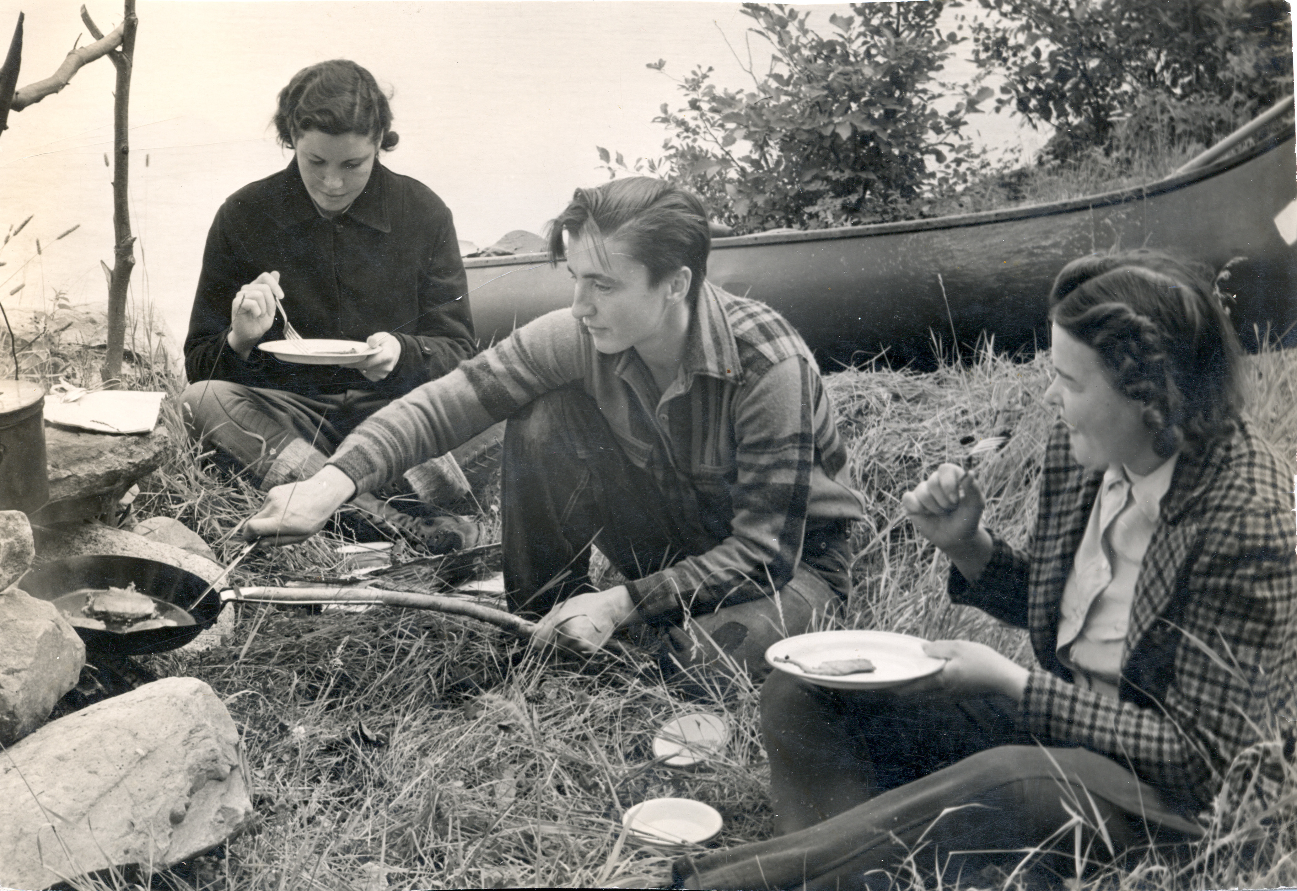 Justine cooking a shore lunch. J Kerfoot photo